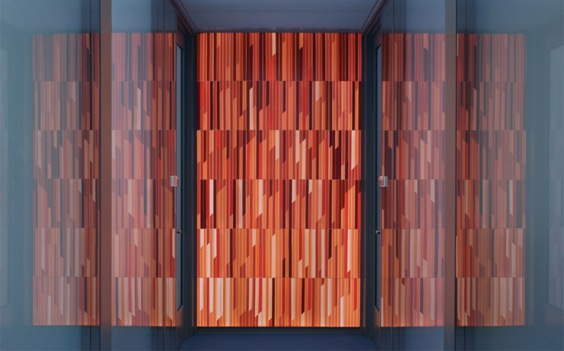 Backlit, kilnformed glass, 9'h x 5'w, 2010. One of six walls located at the north and south ends of the central corridor of the office wing of the building. Third floor south. Artist: Paul Housberg Architect: Hopkins Architects, London in collaboration with Payette Associates, Boston